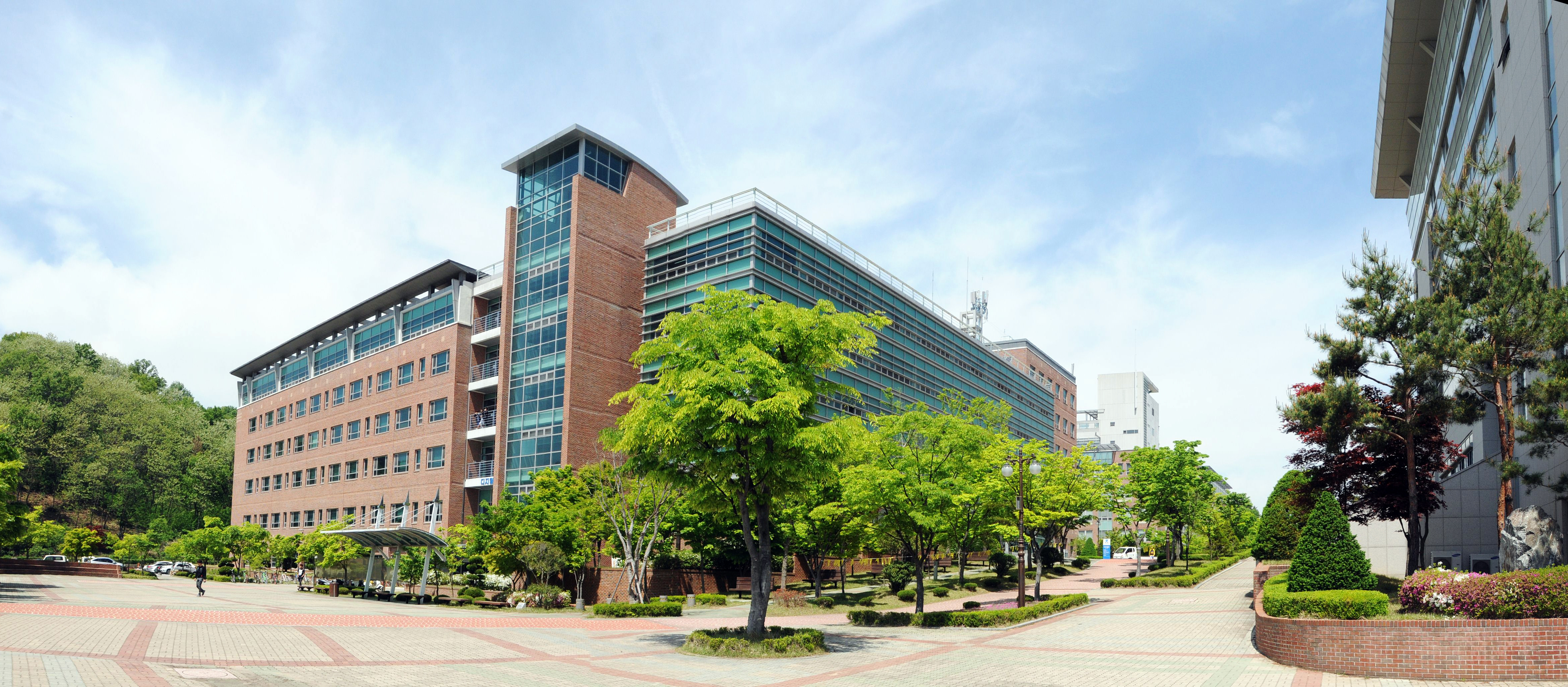 Summer is the warmest of the four temperate seasons - KIT: Kumoh National Institute of Technology